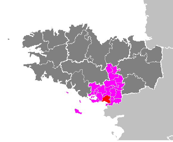 Maps of arrondissements and cantons of France: Arrondissement de Vannes - Canton de Muzillac.PNG